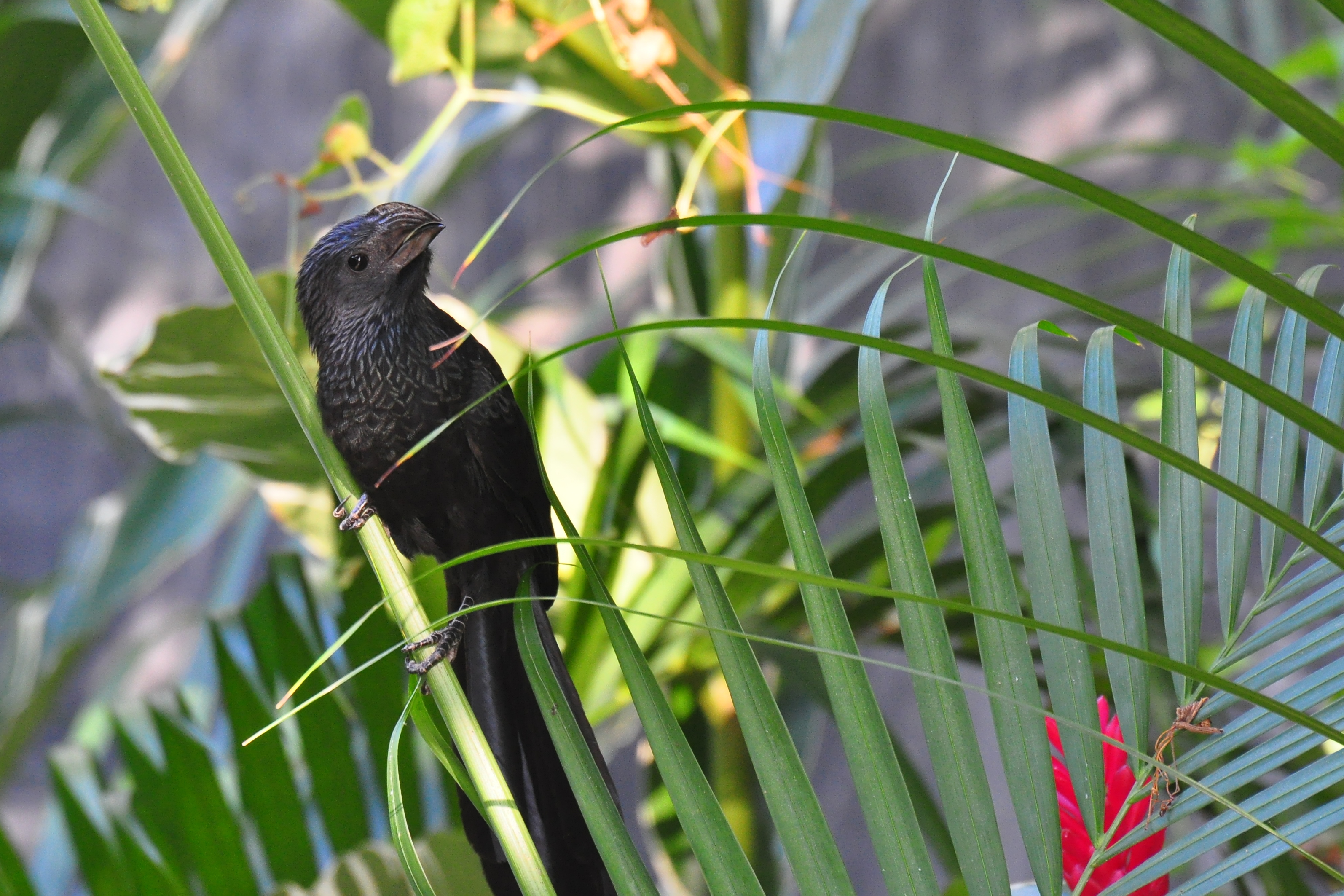 Groove-billed Ani (Crotophaga sulcirostris).